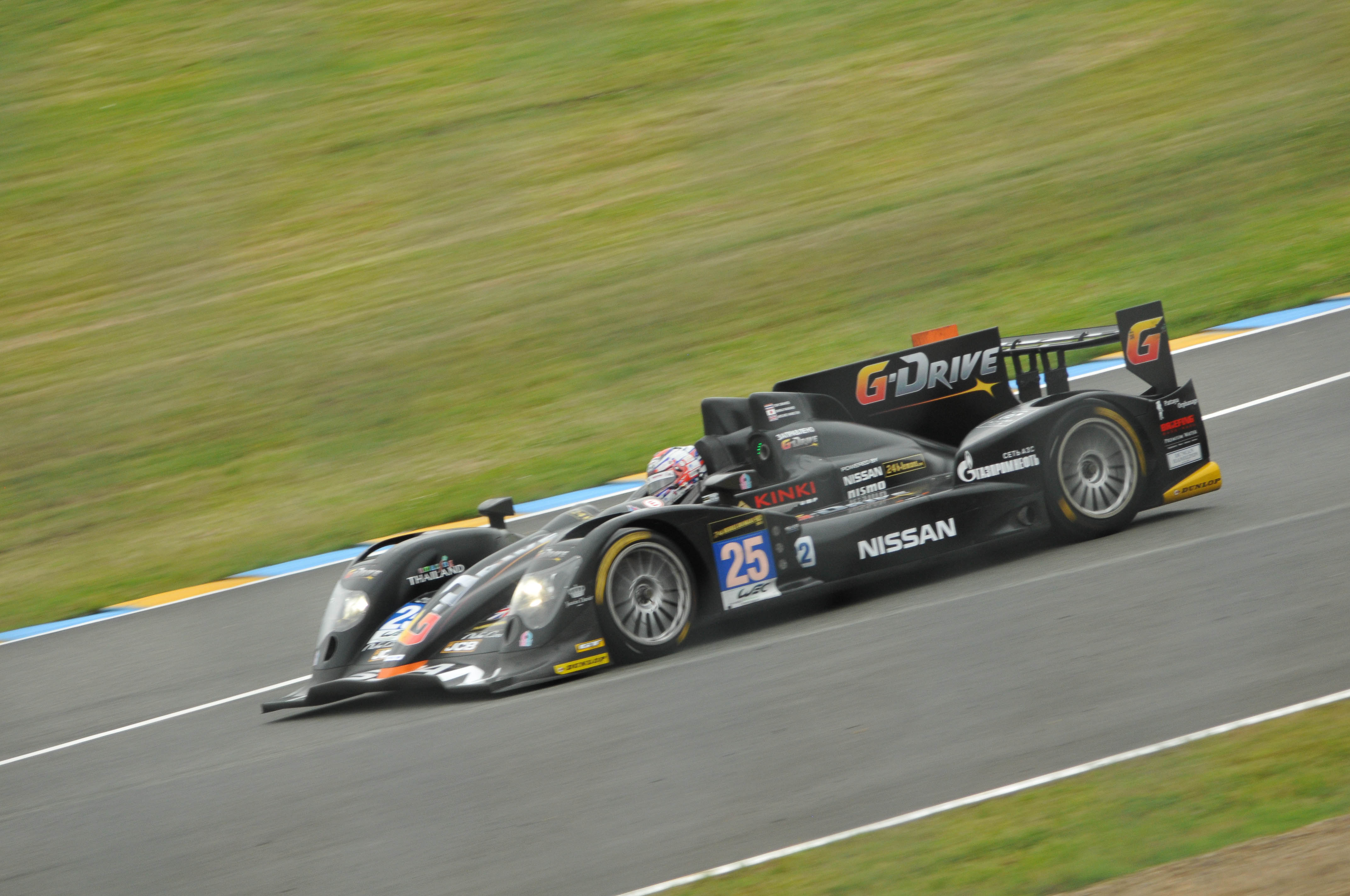 Le Mans 2013 (201 of 631)